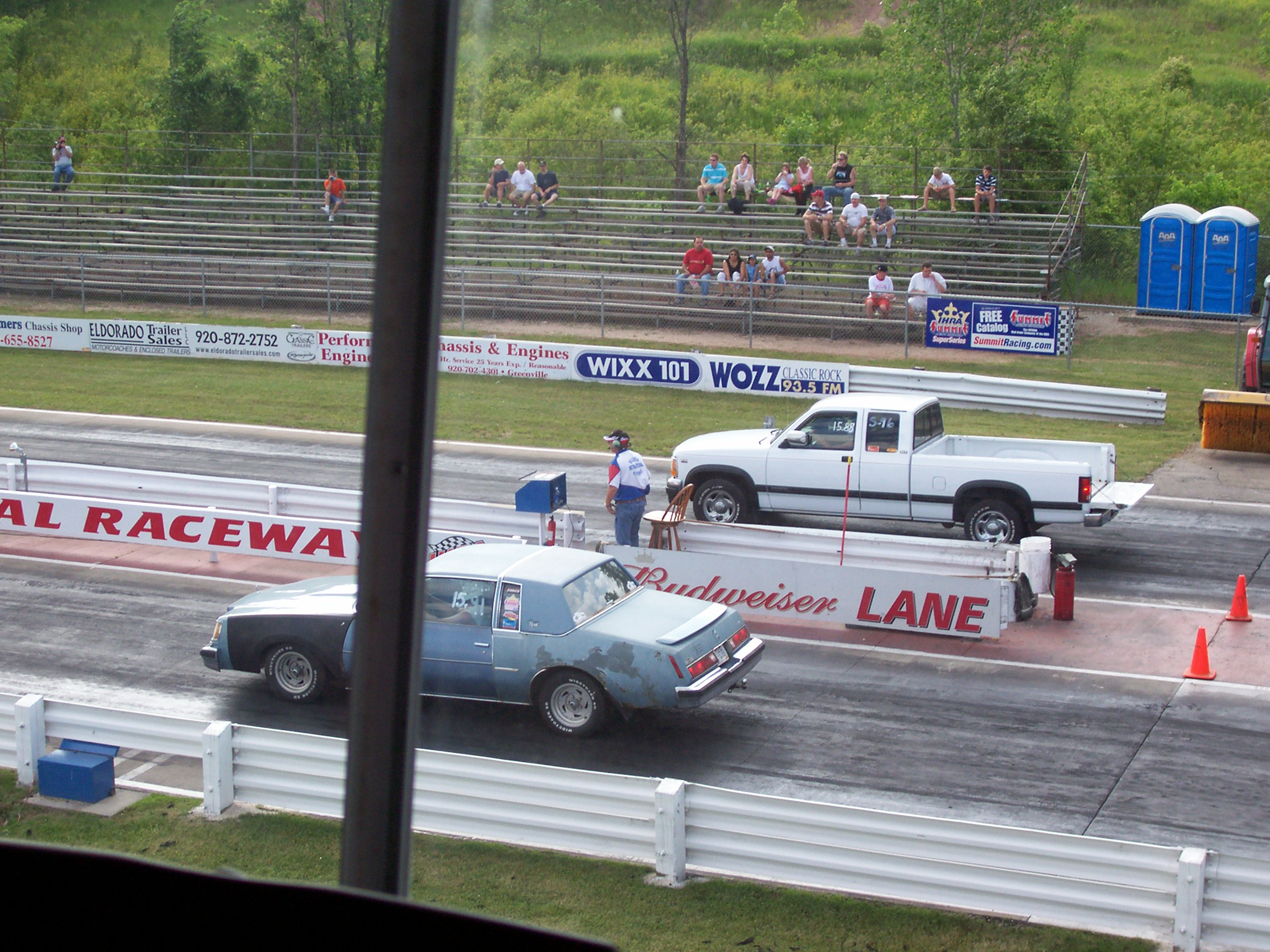 Looking from the control tower at two Street Eliminator cars lining up on the drag strip at Wisconsin International Raceway, taken June 19 en:2006 by myself.